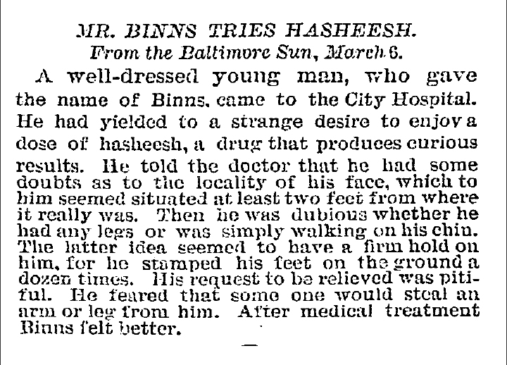 An article describing the effects of hashish The excerpt reads: MR. BINNS TRIES HASHEESH From the Baltimore Sun, March 6. A well-dressed young man, who gave the name of Binns came to the City Hospital. He had yielded to a strange desire to enjoy a dose of hasheesh, a drug that produces curious results. He told the doctor that he had some doubts as to the locality of his face, which to him seemed situated at least two feet from where it really was. Then he was dubious whether he had any legs or was simply walking on his chin. The latter idea seemed to have a firm hold on him for he stamped his feet on the ground a dozen times. His request to be relieved was pitiful. He feared that some one would steal an arm or leg from him. After medical treatment Binns felt better.